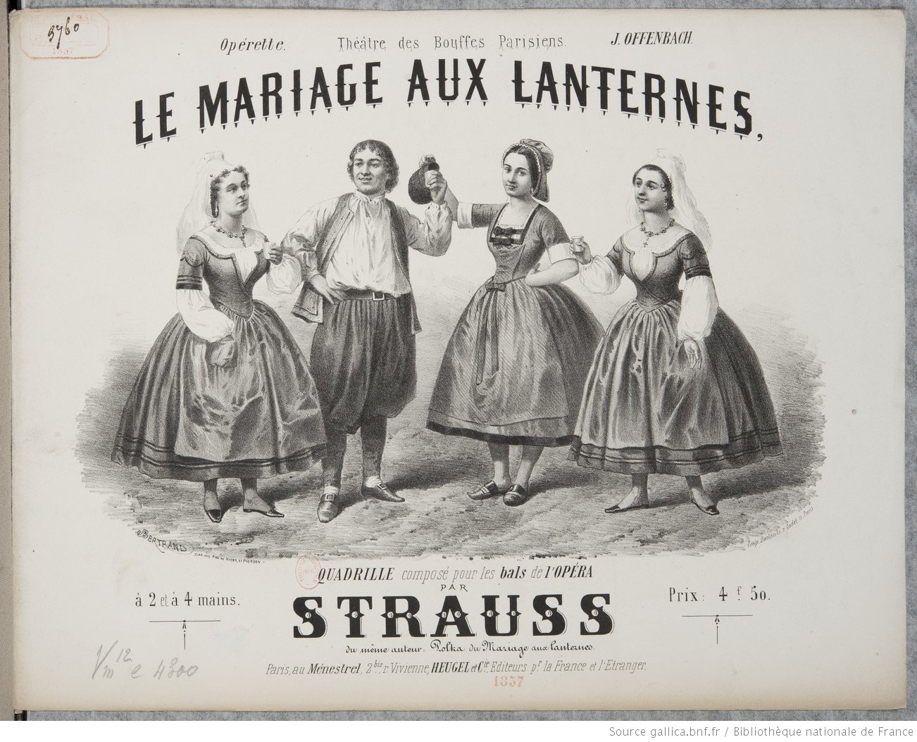 Quadrille on the brindisi quartet from "Le mariage aux lanternes" by Jacques Offenbach, arranged by Strauss, title page with lithography by (A.-V.) Bertrand